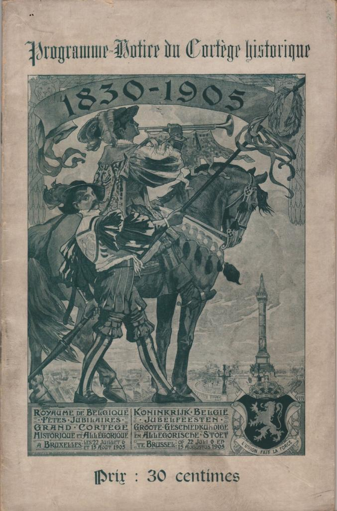 Cover of the programme of the historical and allegorical procession in Brussels, July 22nd, August 6th and 15th, 1905, on the occasion of the 75th anniversary of the Belgian independence